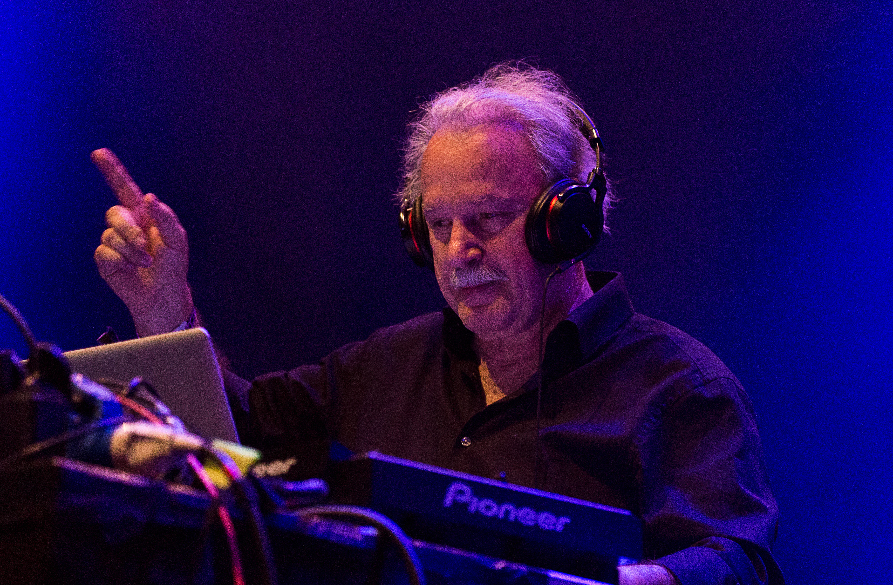 The Italian composer Giorgio Moroder at the Melt! 2015 in Ferropolis/Germany.